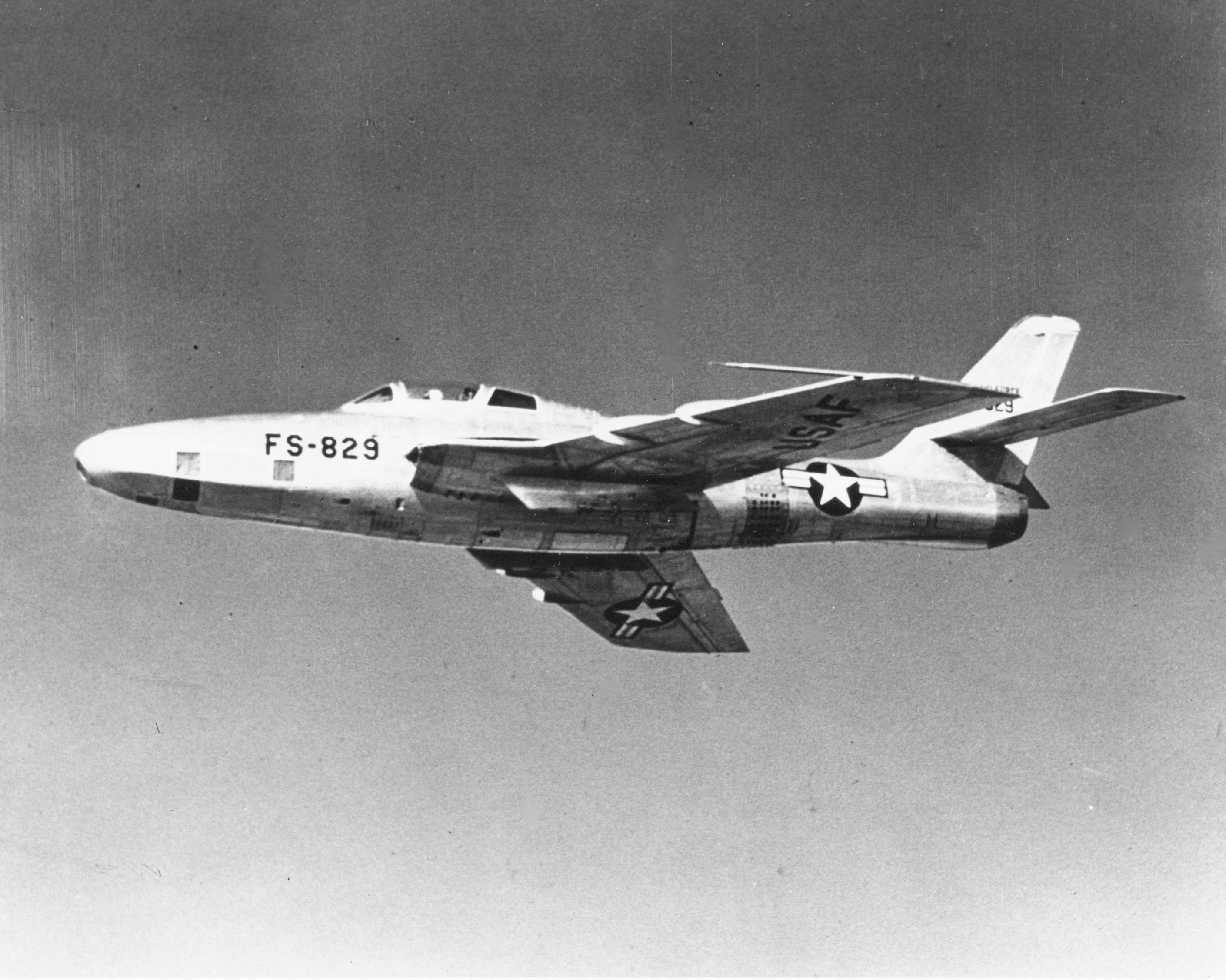 RF-84F Thunderflash, the reconnaissance version of the F-84F Thunderstreak.